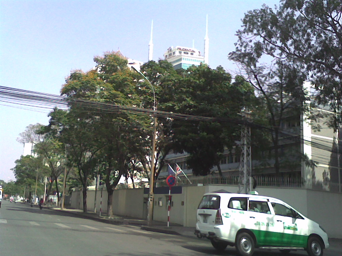 British consulate and former Embassy on Le Duan Boulevarde, Ho Chi Minh City